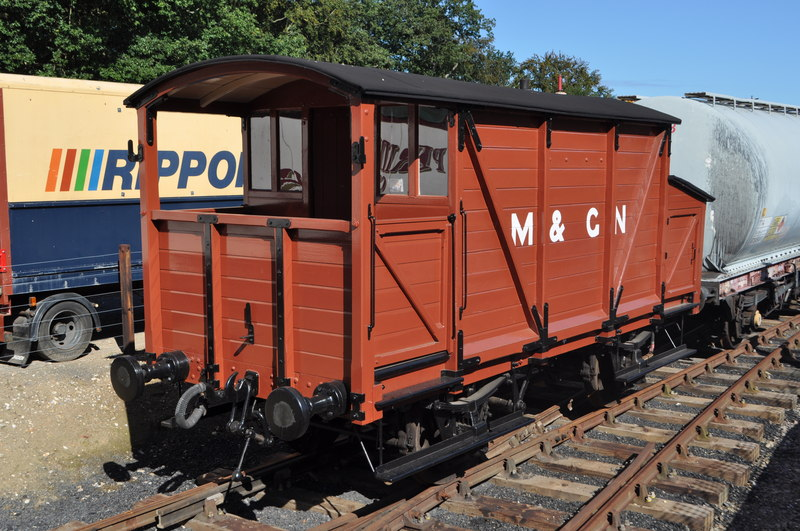 M&GN Brake Van